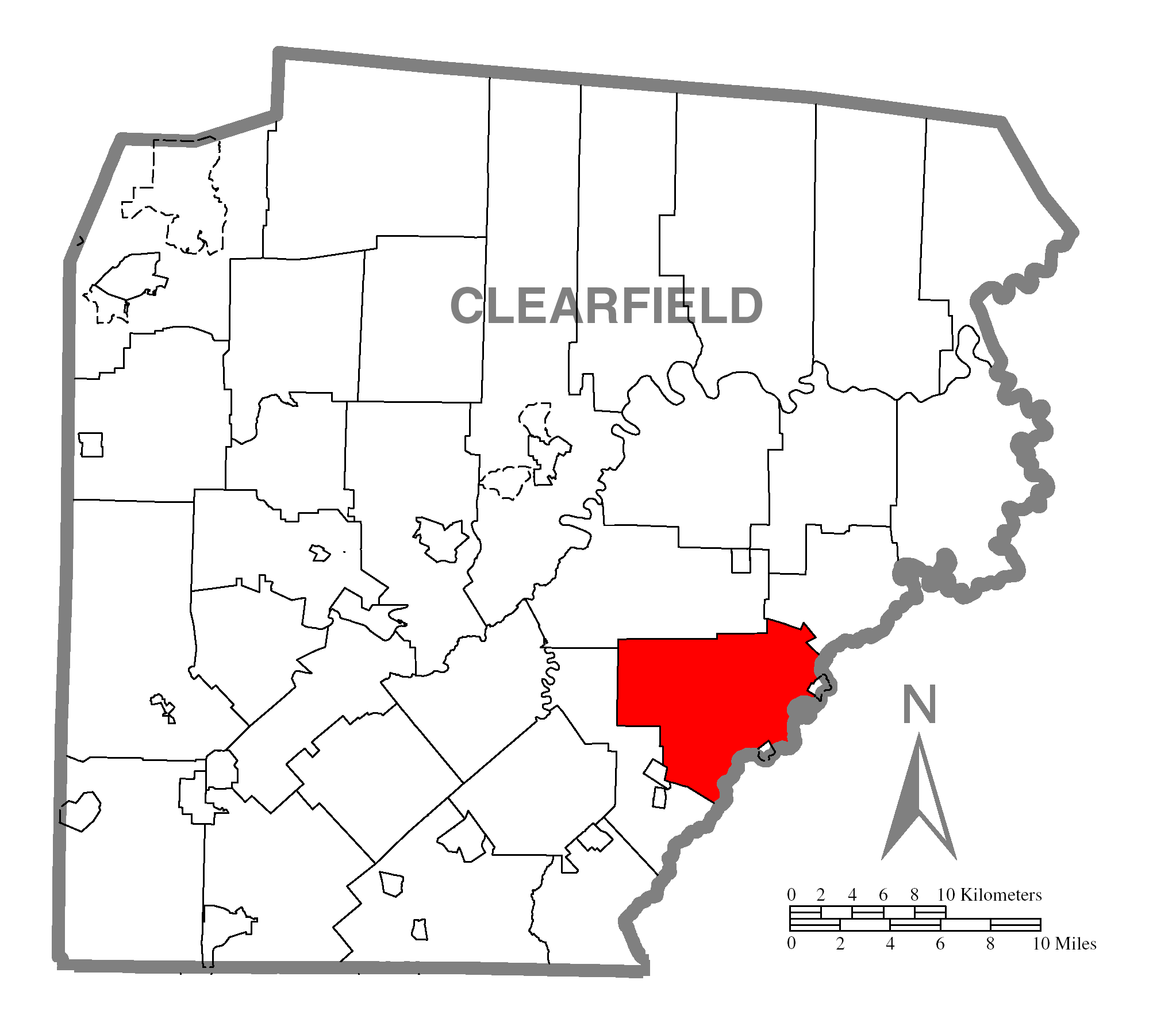 A map of Clearfield County showing Decatur Township, Pennsylvania (alternate) highlighted on the map.